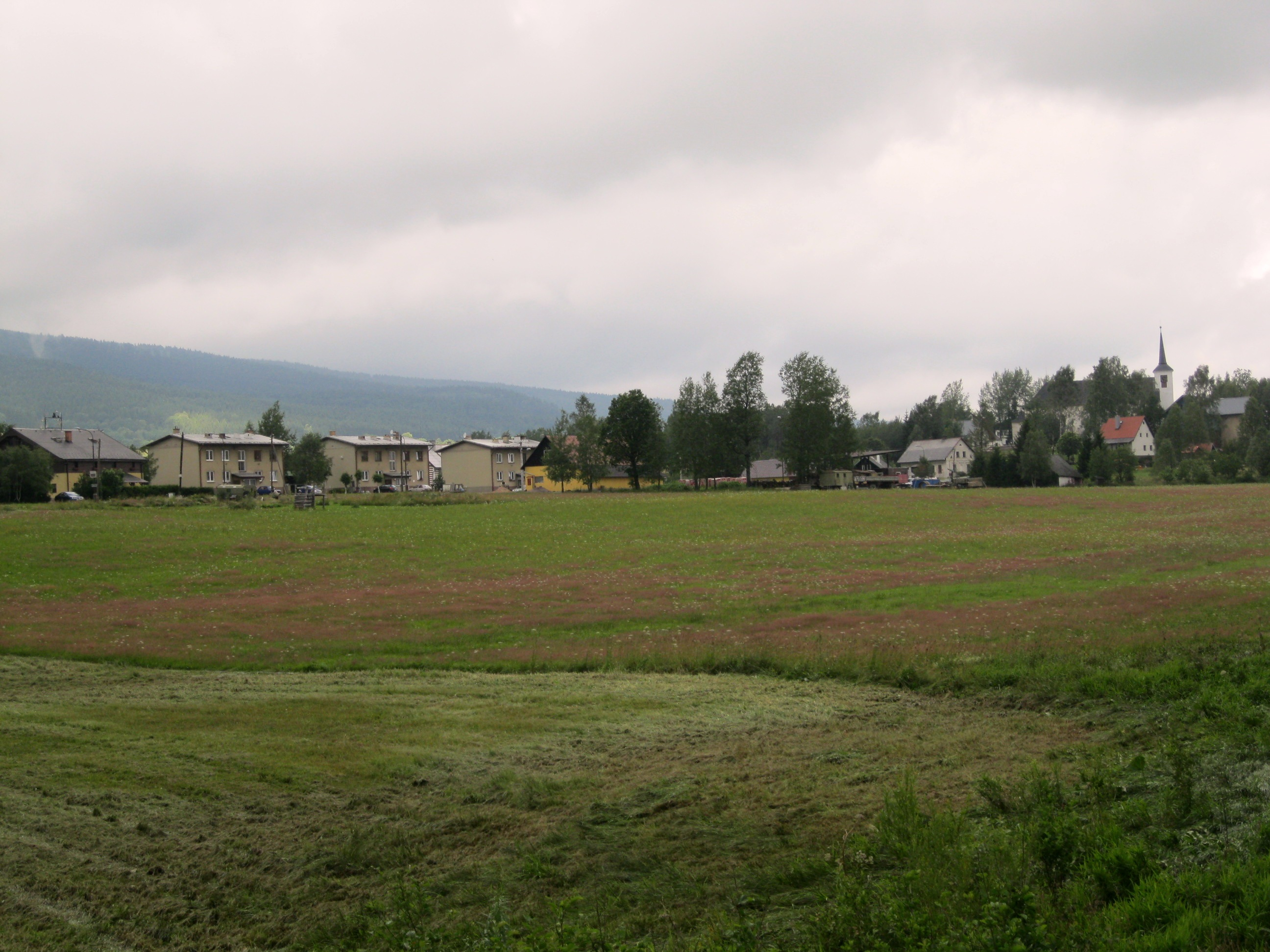 Pohled na obec Orlické Záhoří